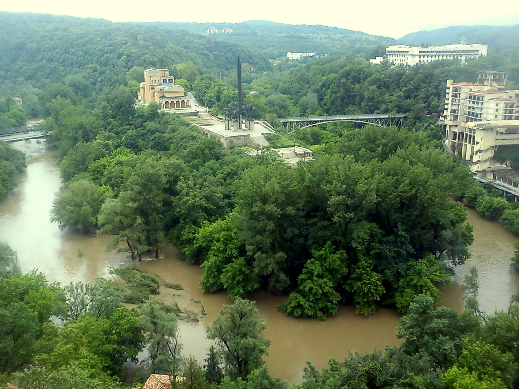 Yantra river, Veliko Tarnovo, Bulgaria